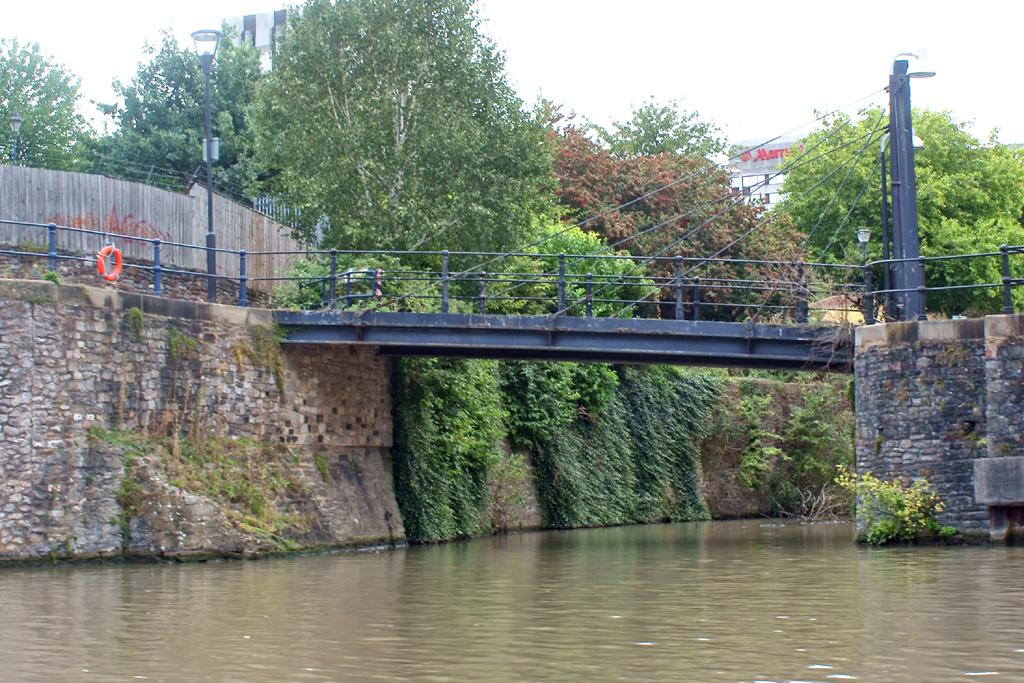 Entrance to the Castle Moat (of the long demolished Bristol Castle which stood to the left) viewed from the "Floating Harbour", the natural course of the River Avon, now diverted into an artificial channel to the south. Footbridge over. This was the site of the "Water Gate", guarded by five towers ("Bristol Past and Present" (Arrowsmith, 1881, pages 74-79), J. F. Nicholls and John Taylor)